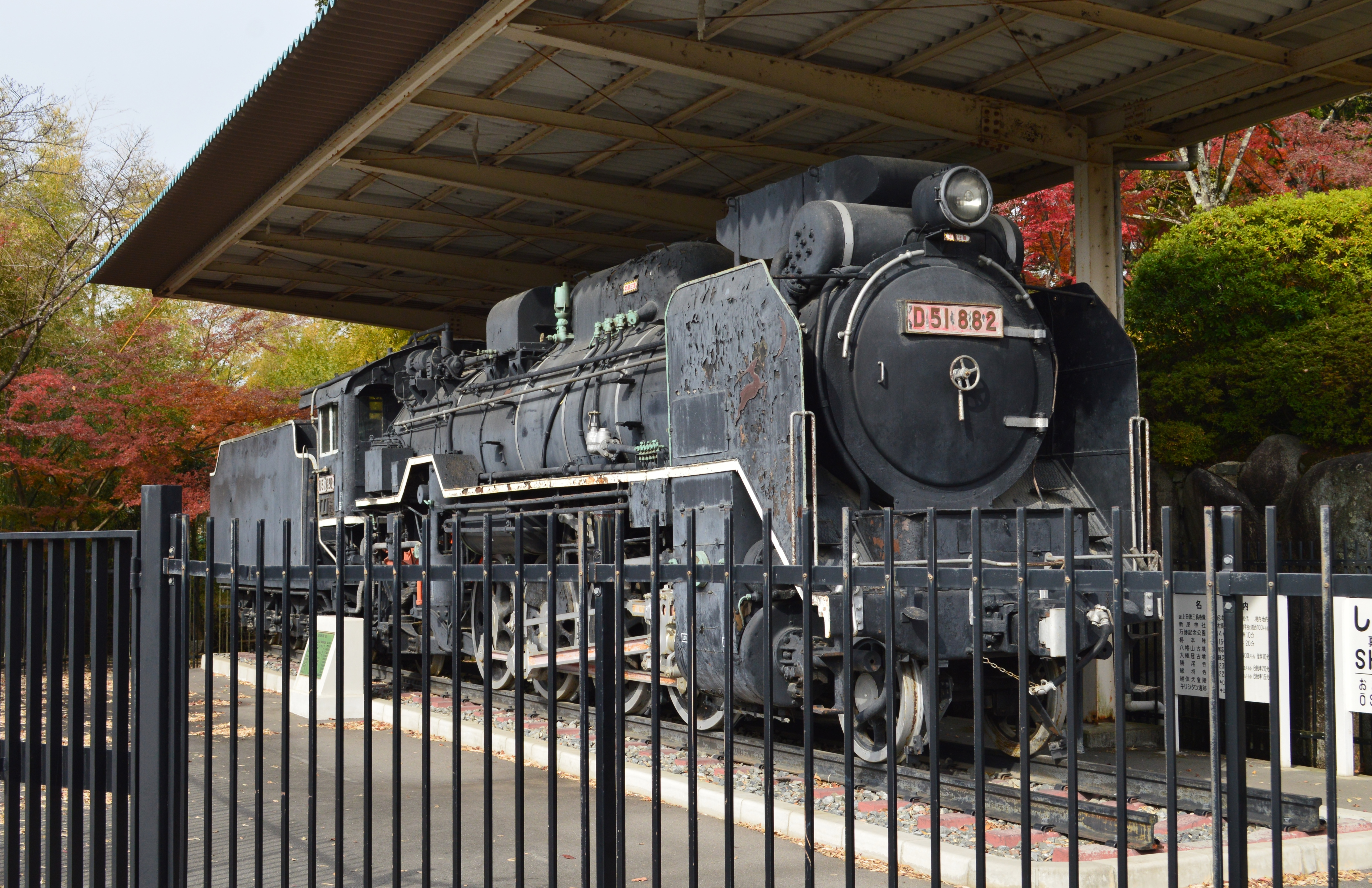 Preserved Class D51 steam locomotive D51 882 in Ibaraki, Osaka Prefecture, Japan